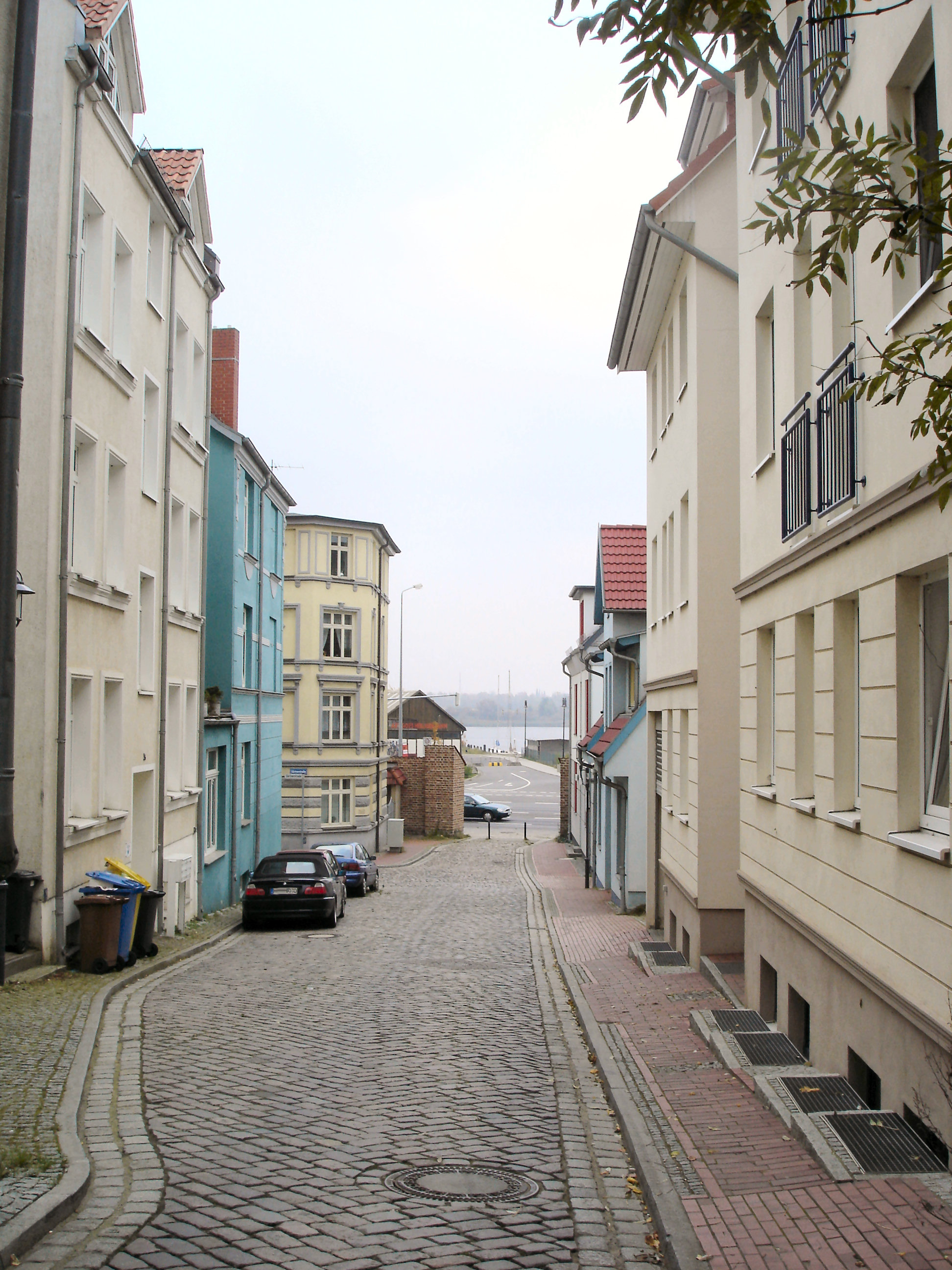 Street in the historic city of Rostock